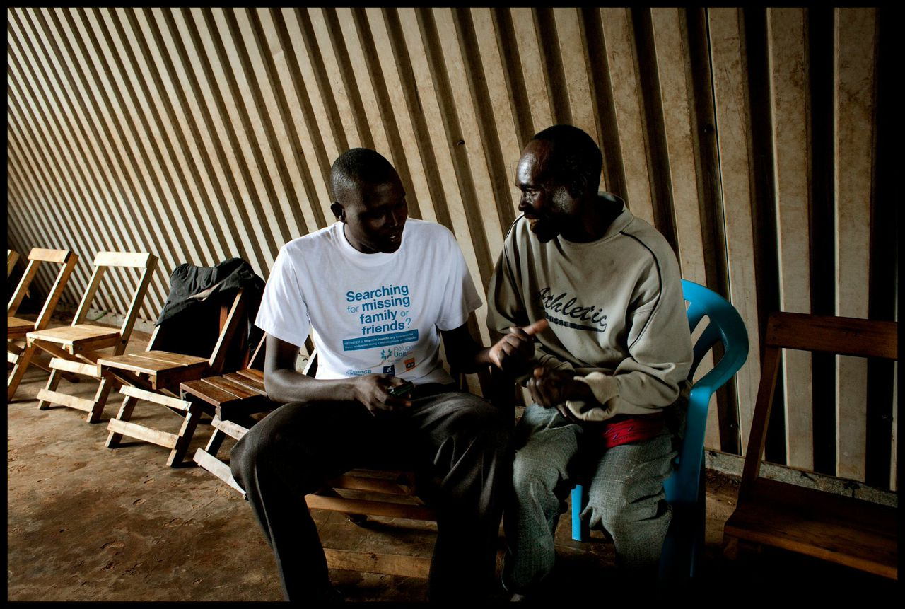 REFUNITE outreach volunteer with a beneficiary